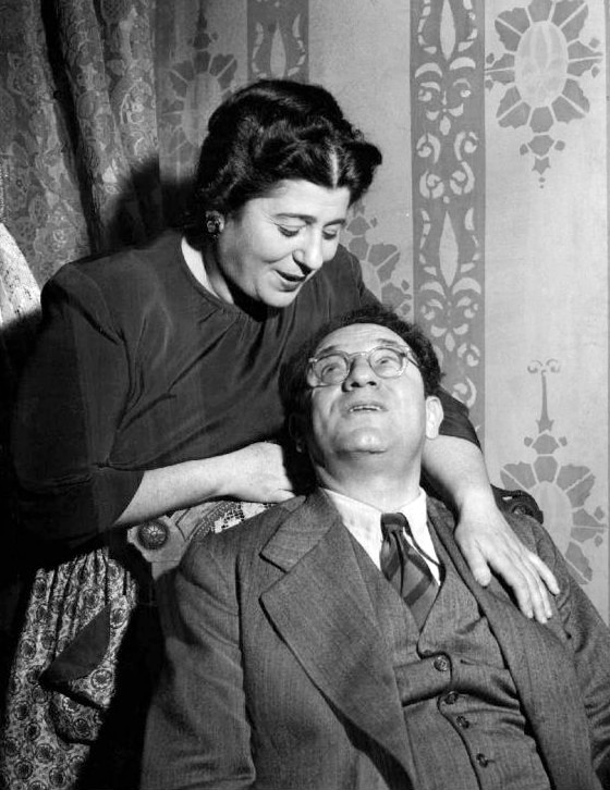 Photo of Gertrude Berg and Philip Loeb as Molly and Jake Goldberg from the television program The Goldbergs. Loeb played Jake for most of the time the program was on radio and television. He was blacklisted circa 1951, which forced him from this role.